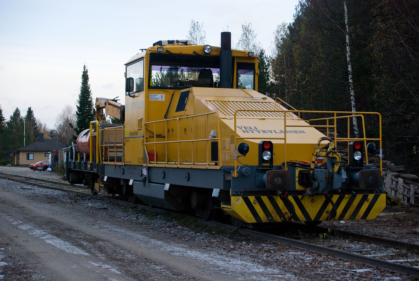 The type N locomotive, nowadays class Ttm1 number 91101 at Valtimo between Nurmes and Kontiomäki.